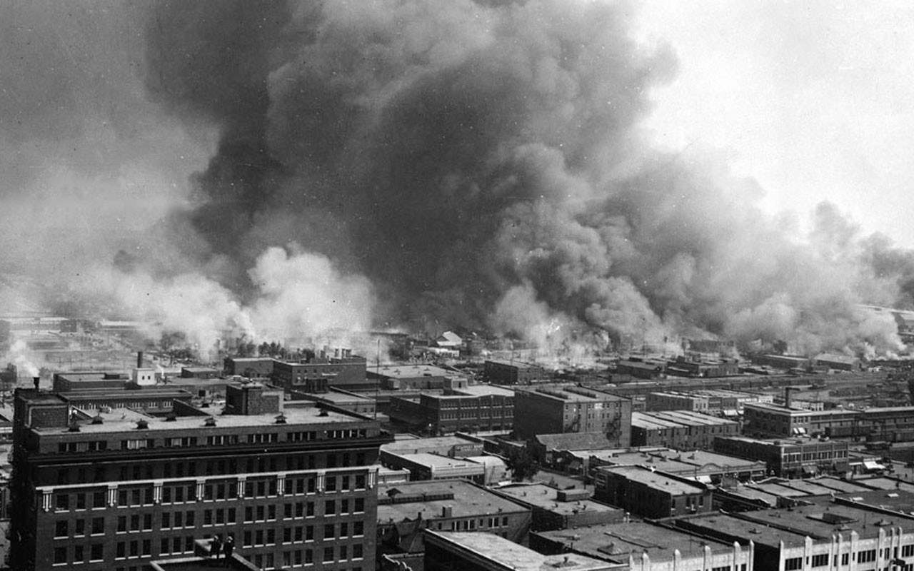 Destruction from the 1921 Tulsa race massacre.